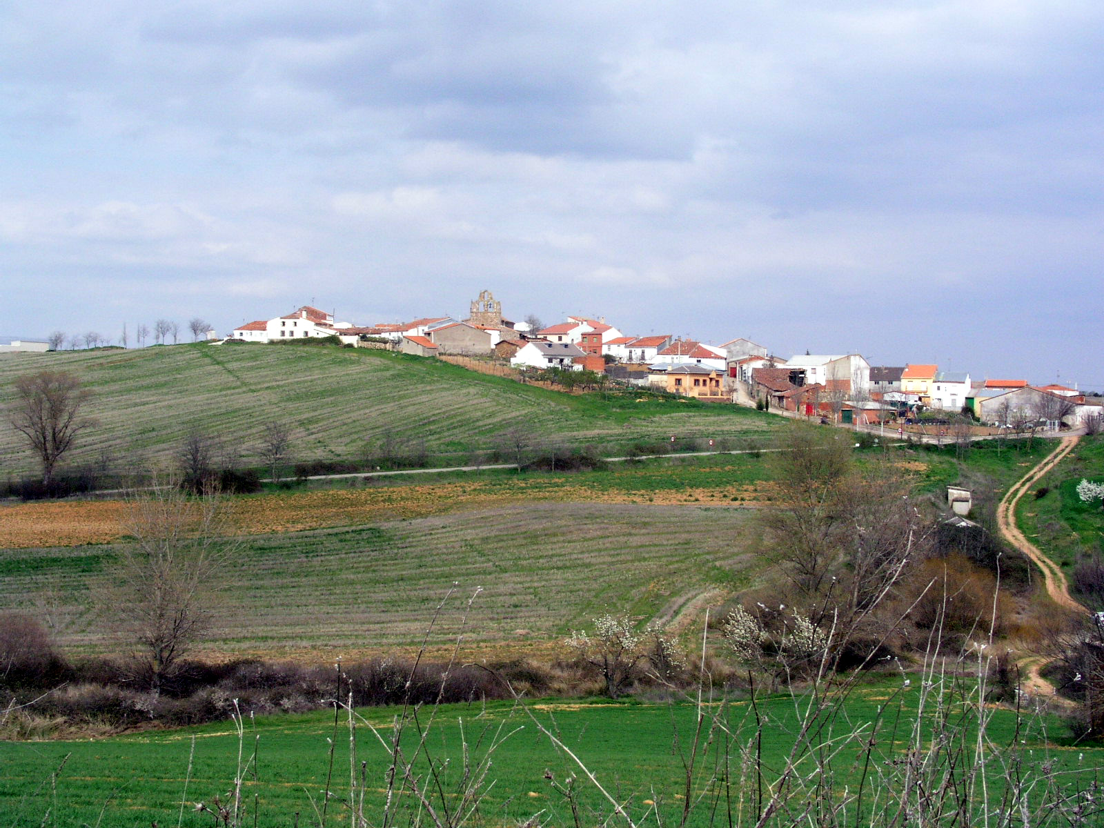 Puebla de Beleña, church, Guadalajara, Spain. Distant view.